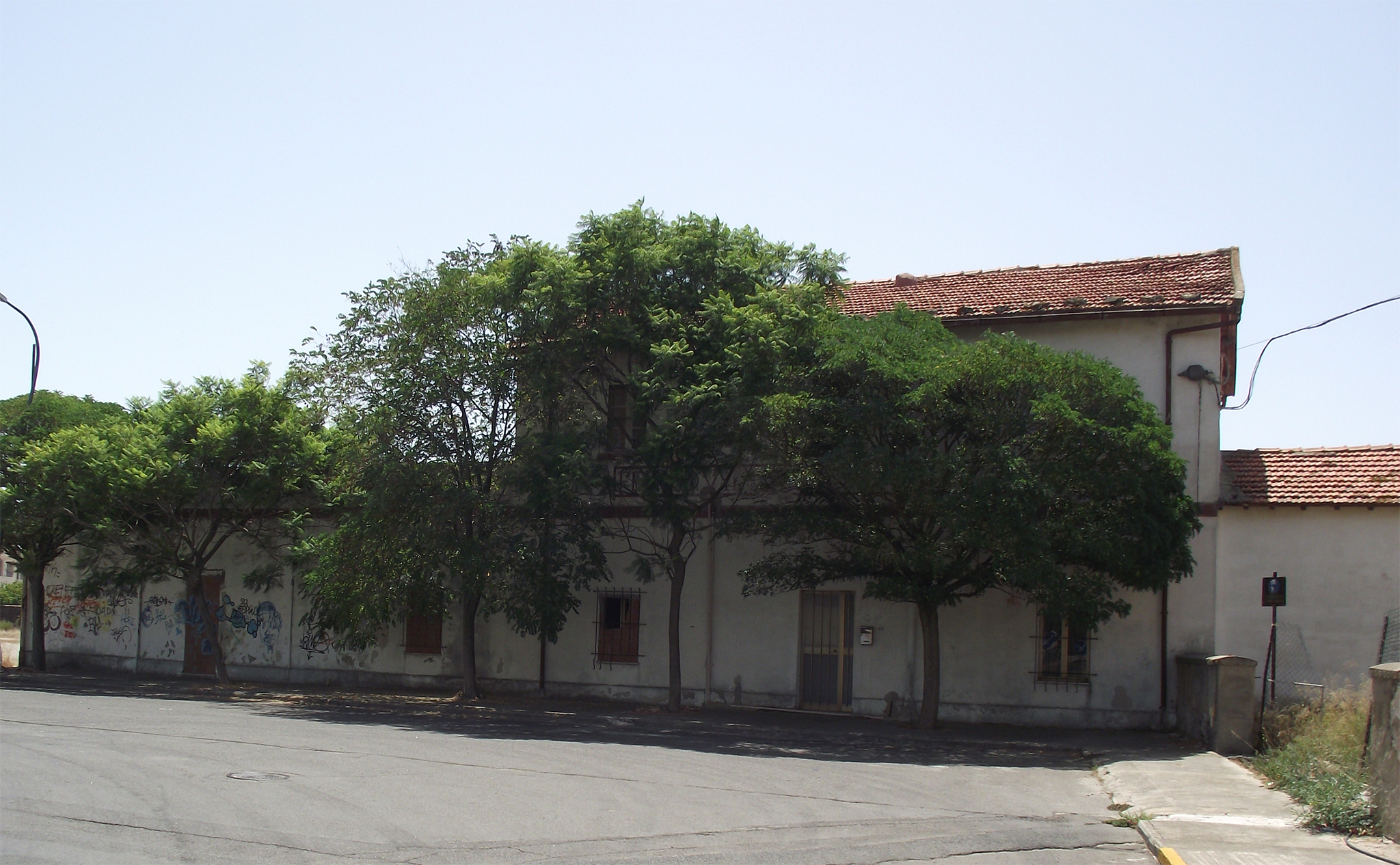 The former Ferrovie Meridionali Sarde's station of San Giovanni Suergiu, in Sardinia, Italy, seen from via Di Vittorio